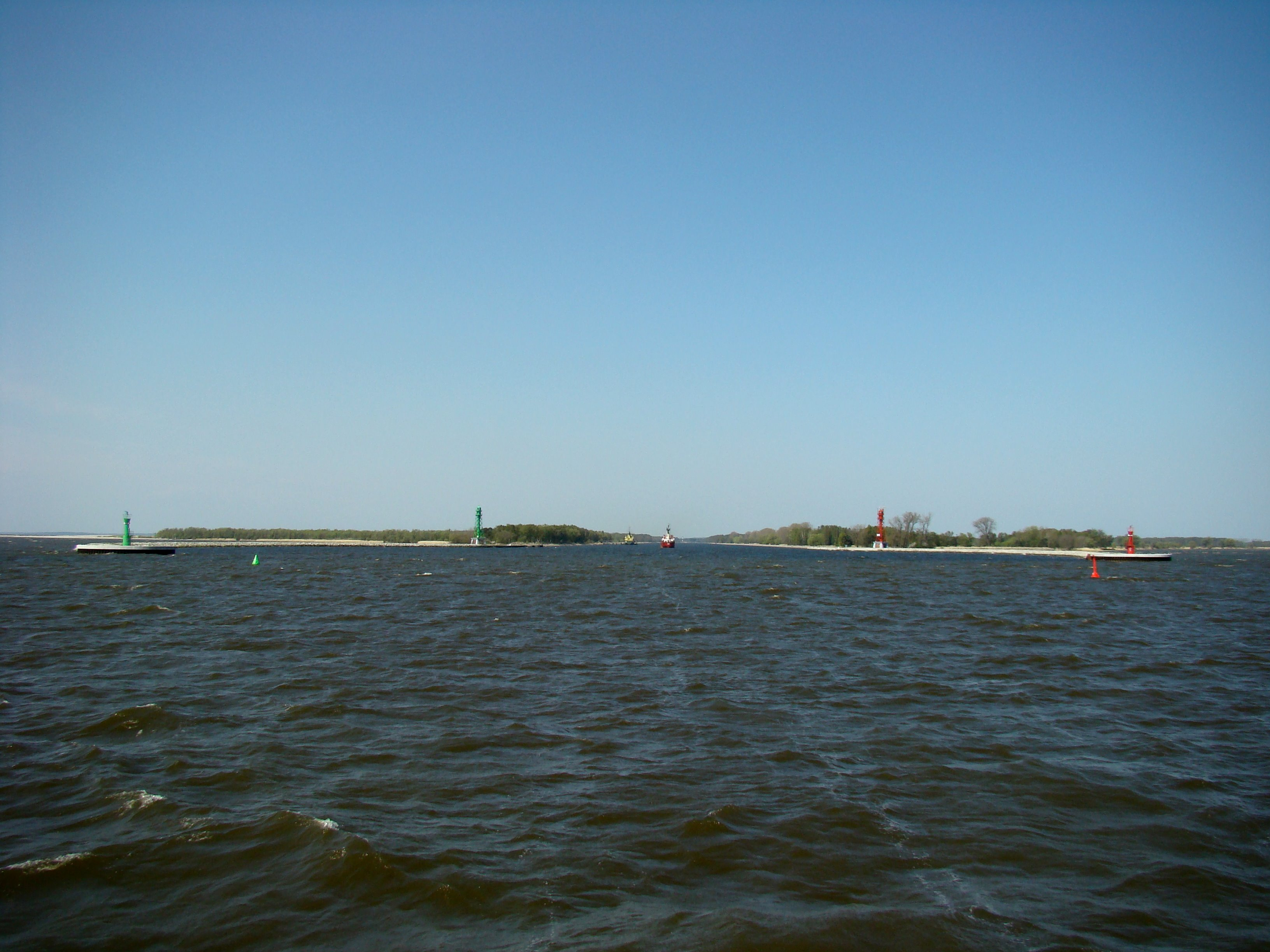 Channel Gate No. 1, Fairway Szczecin-Swinoujscie, Poland